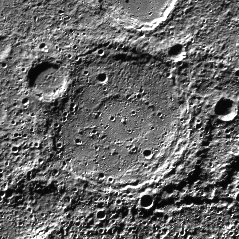 Crater Bernini on Mercury. Mosaic of photos by MESSENGER. Image size is 270×270 km; north is up.